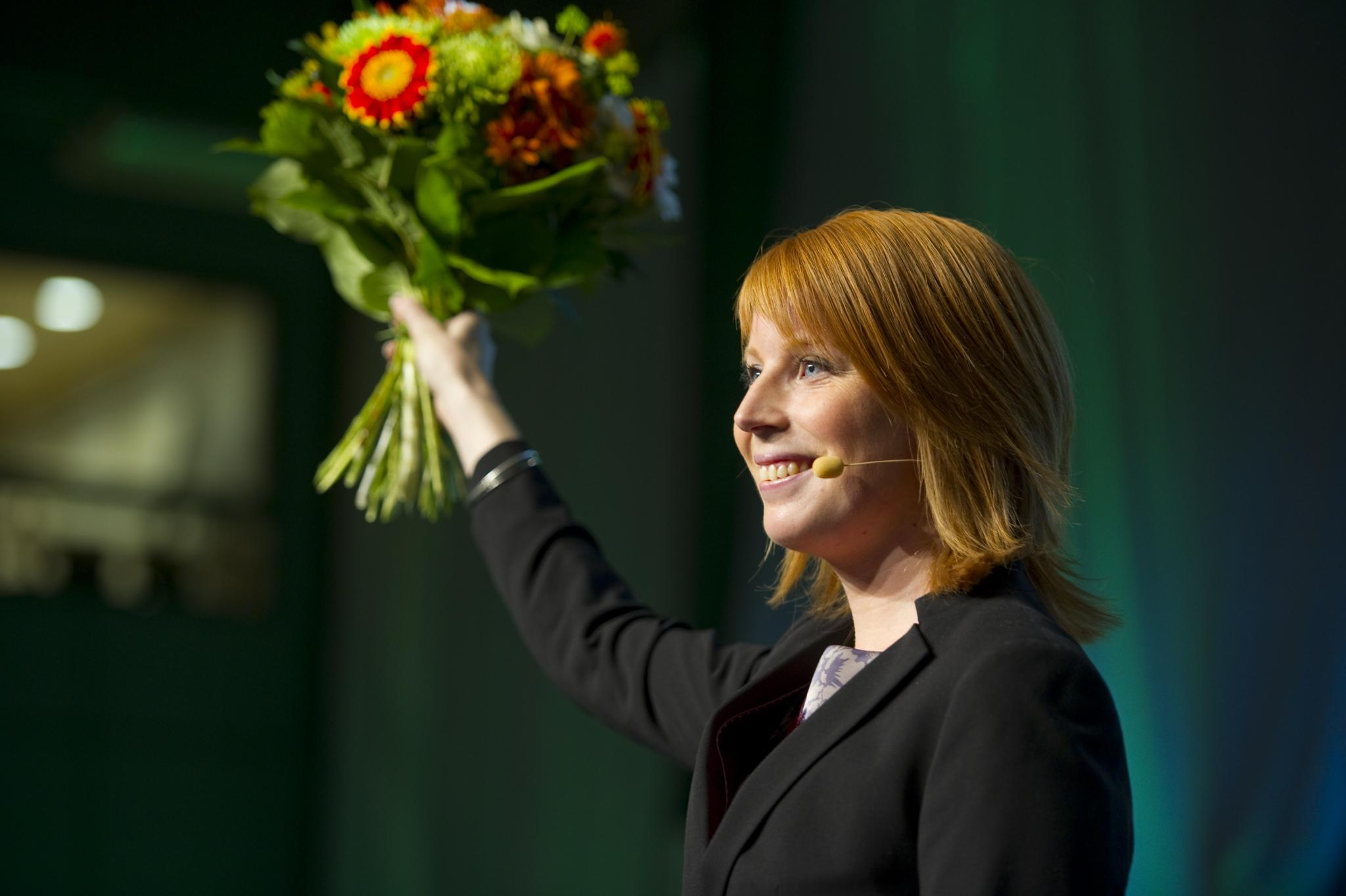 Ange fotograf Patrick Trägårdh